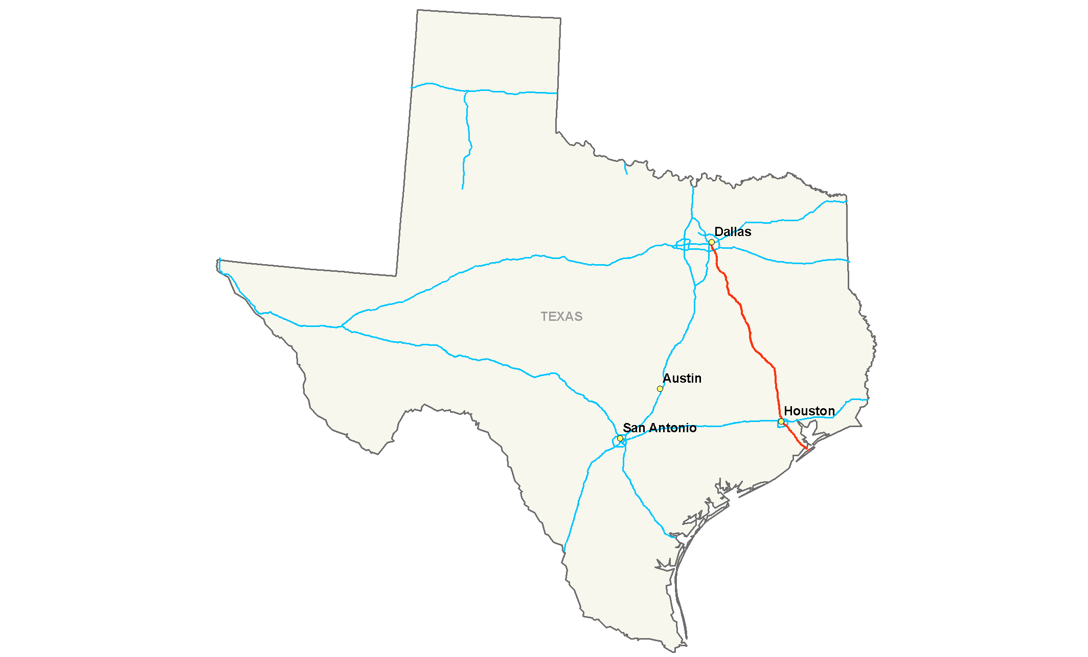 Map of Interstate 45